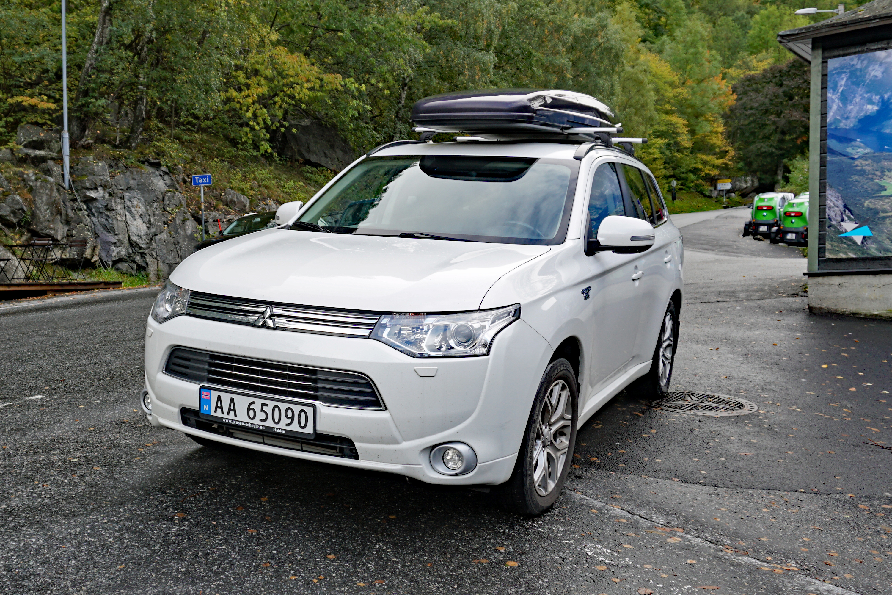 Mitsubishi Outlander Plug-in Hybrid EV (PHEV) in Geiranger, Norway.